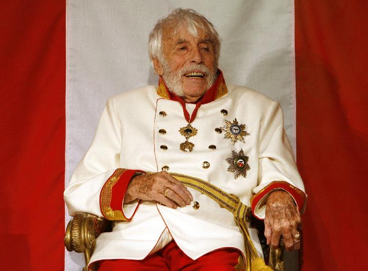 Johannes Heesters in a 2008 production of the operetta The White Horse Inn as Franz Joseph I of Austria; location: Hamburg, Winterhuder Fährhaus Theatre.